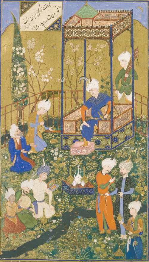 The Feast of Id, copy of Divan by Hafiz, the Shaybanid Dynasty, circa 1523 AD, housed in the Freer Gallery of Art, Smithsonian, Washington D.C.